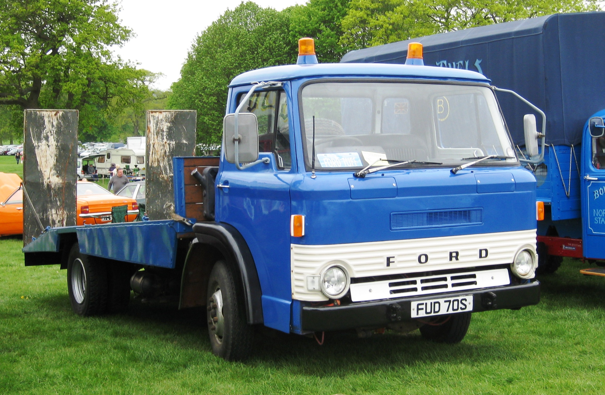 Ford D series light truck at Weston Park Transport Show